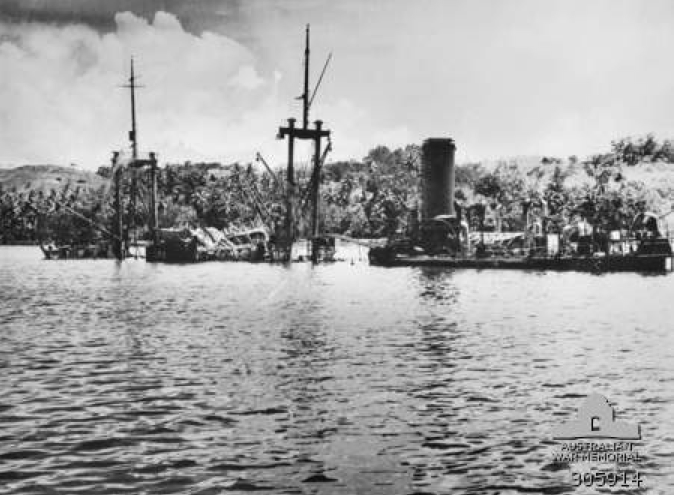 Oro Bay, New Guinea. 1943. The wreck of the Dutch transport Bantam, sunk in a Japanese air raid while taking part in Operation Lilliput. .